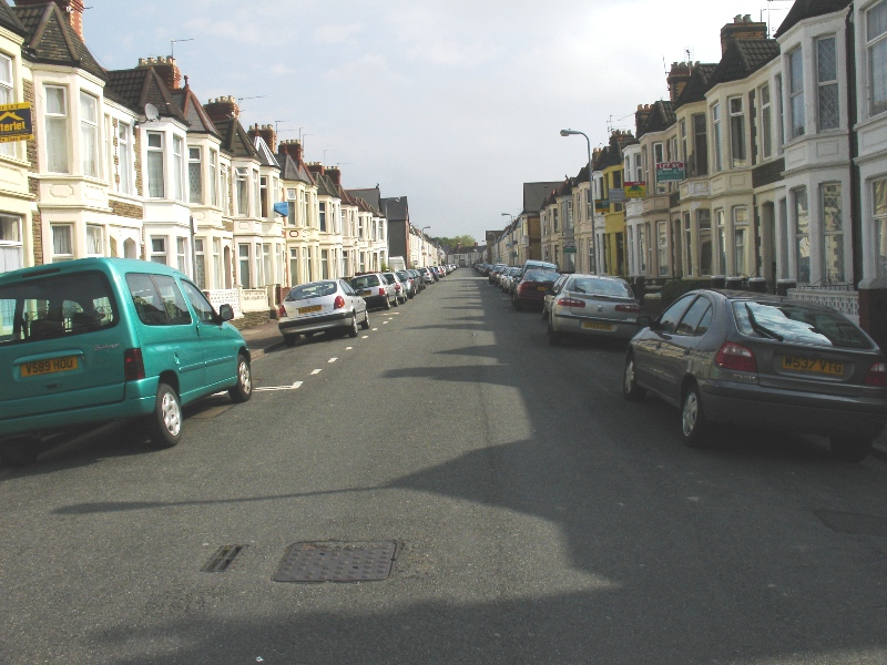 Tewkesbury Street in Cardiff. Photo made by Stan Zurek in May 2005.